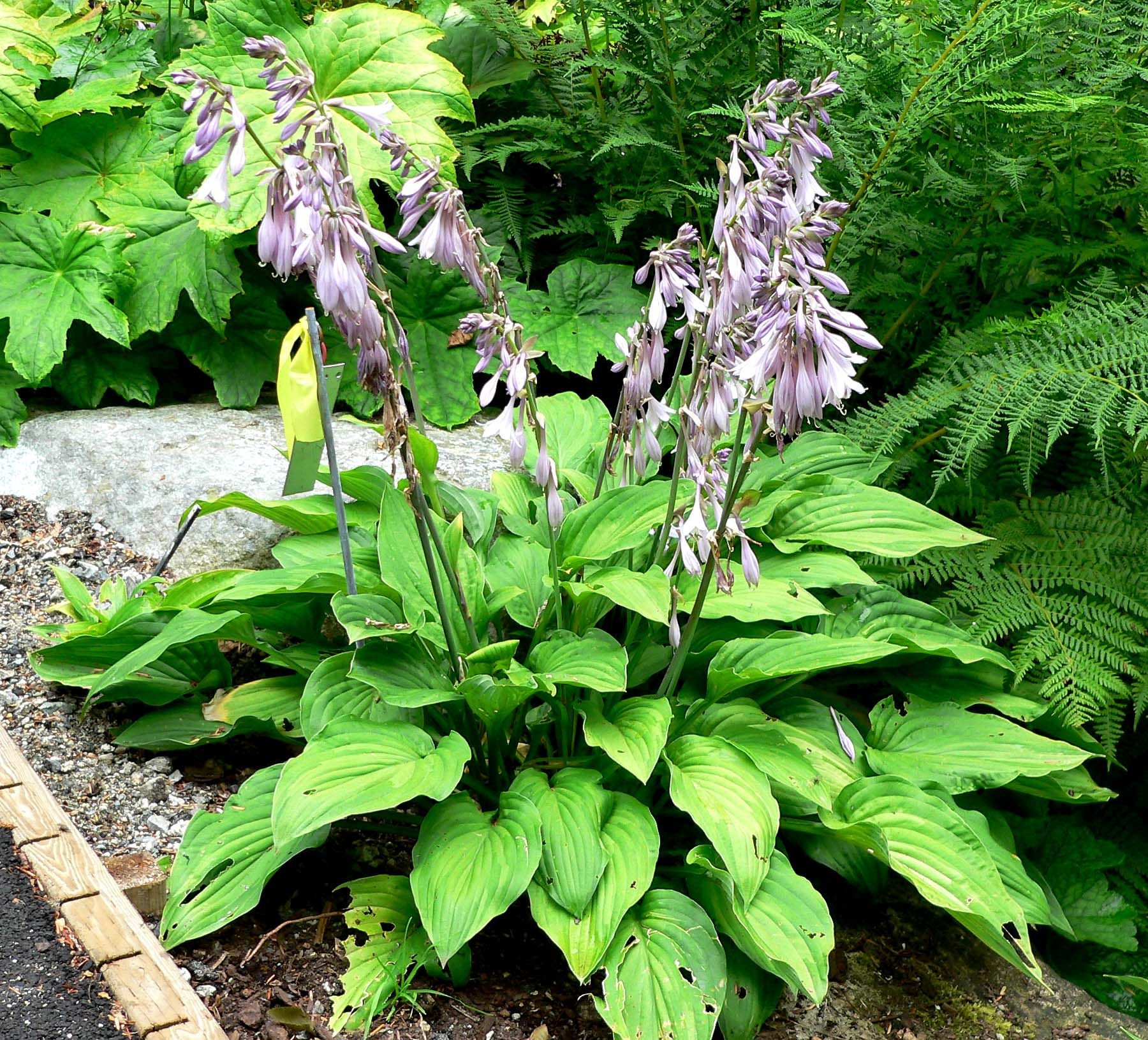 Photo of Hosta fortunei 'Picta' at the UBC Botanical Garden in Vancouver